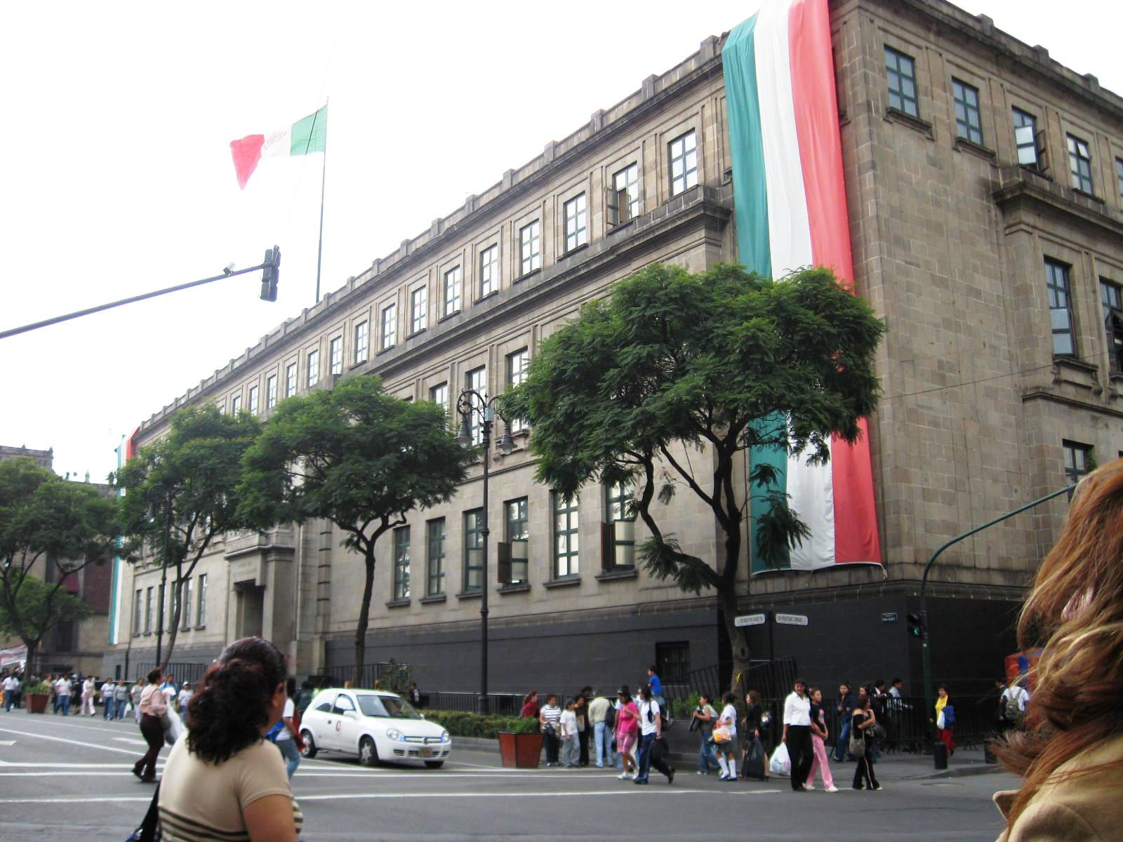 View of the Mexican Supreme Court bldg located on Carranza and Pino Suárez streets at the southeast corner of the Zocalo in Mexico City